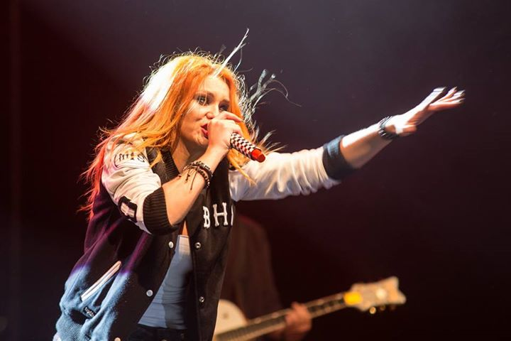 Polish singer Joanna Czarnecka of Red Lips Pand